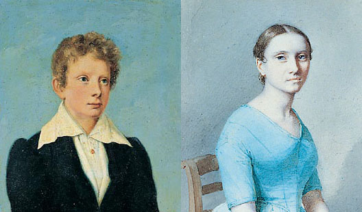 Guglielmo and Albertina Montenuovo, children to Marie-Louise of Austria, Duchess of Parma and Adam Albert Neipperg.